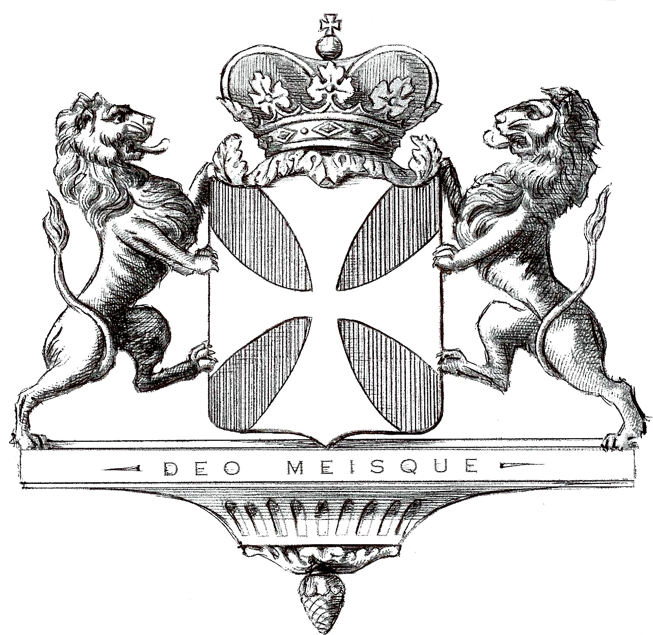 Coat of arms of the noble house of Rougé (France)